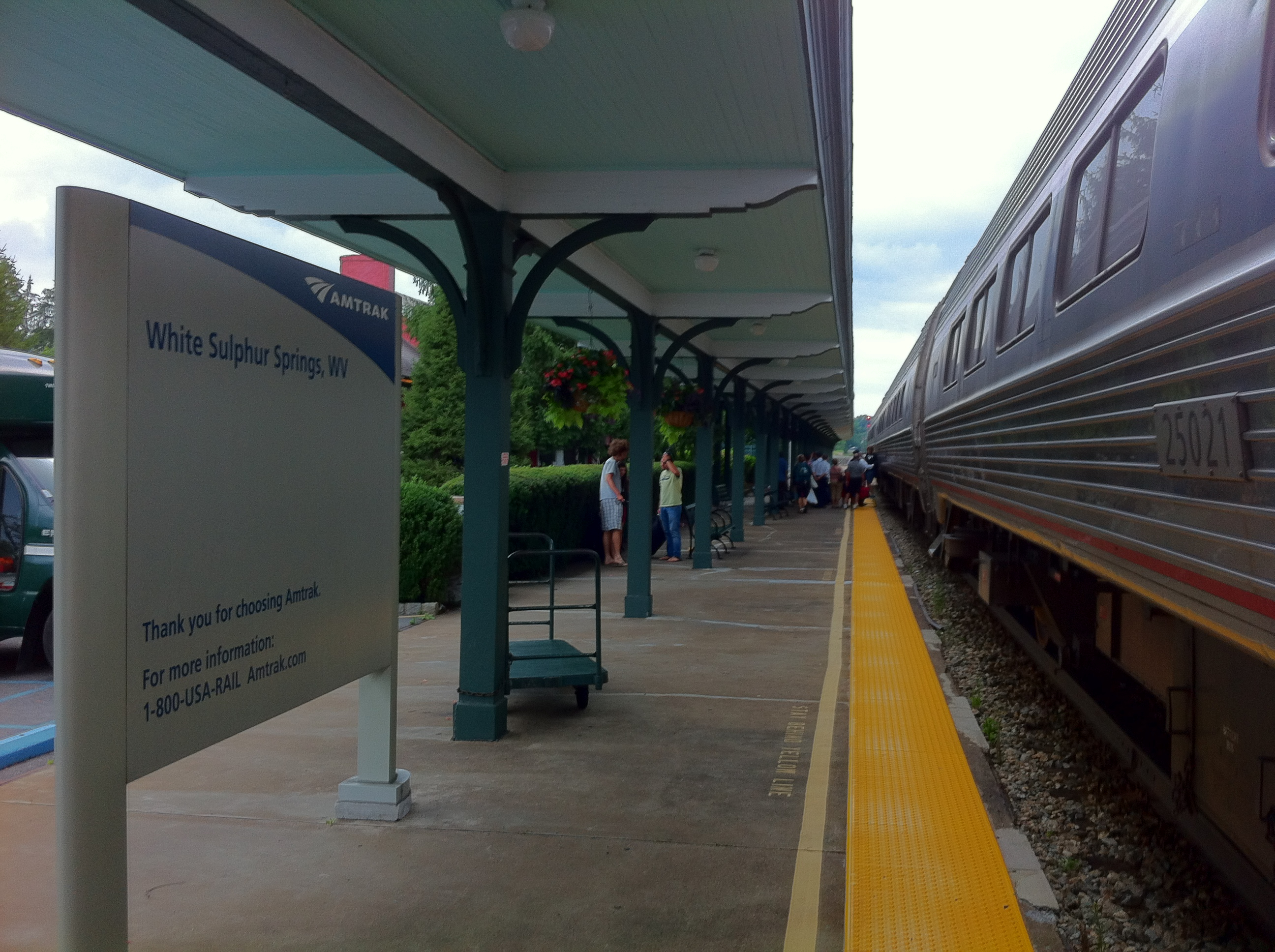 Train platform at the White Sulphur Springs West Virginia Amtrak station with a westbound Cardinal (train) - looking east.